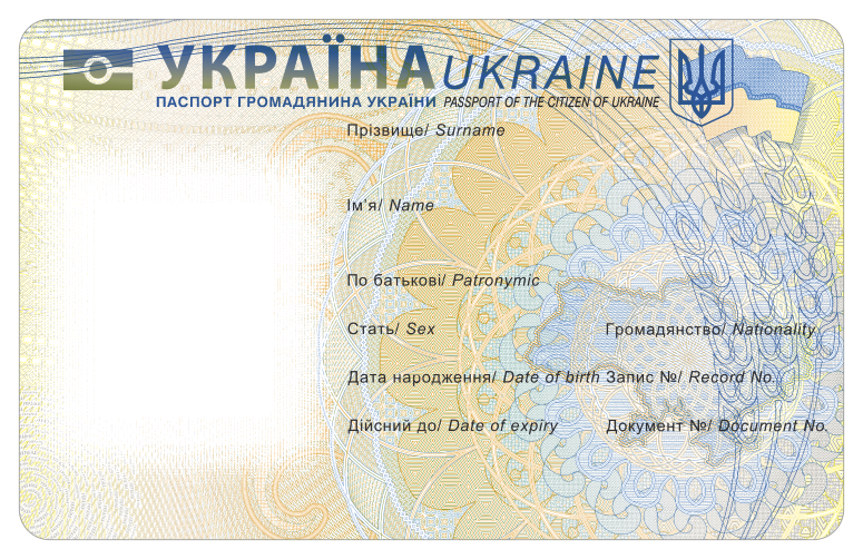 This version was published in first revision of